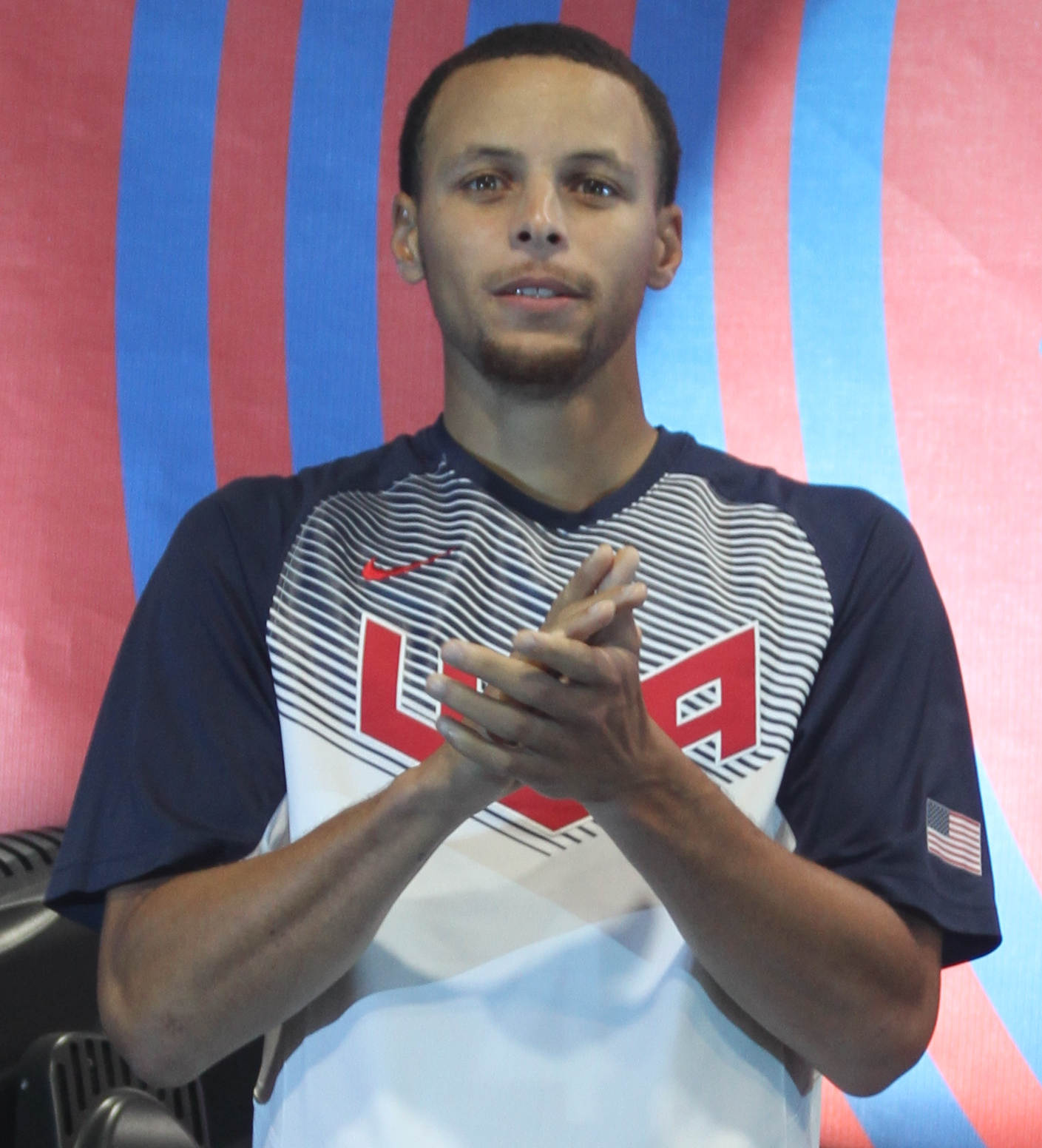 Stephen Curry at 2014 World Basketball Festival at 63rd Street Beach in Chicago